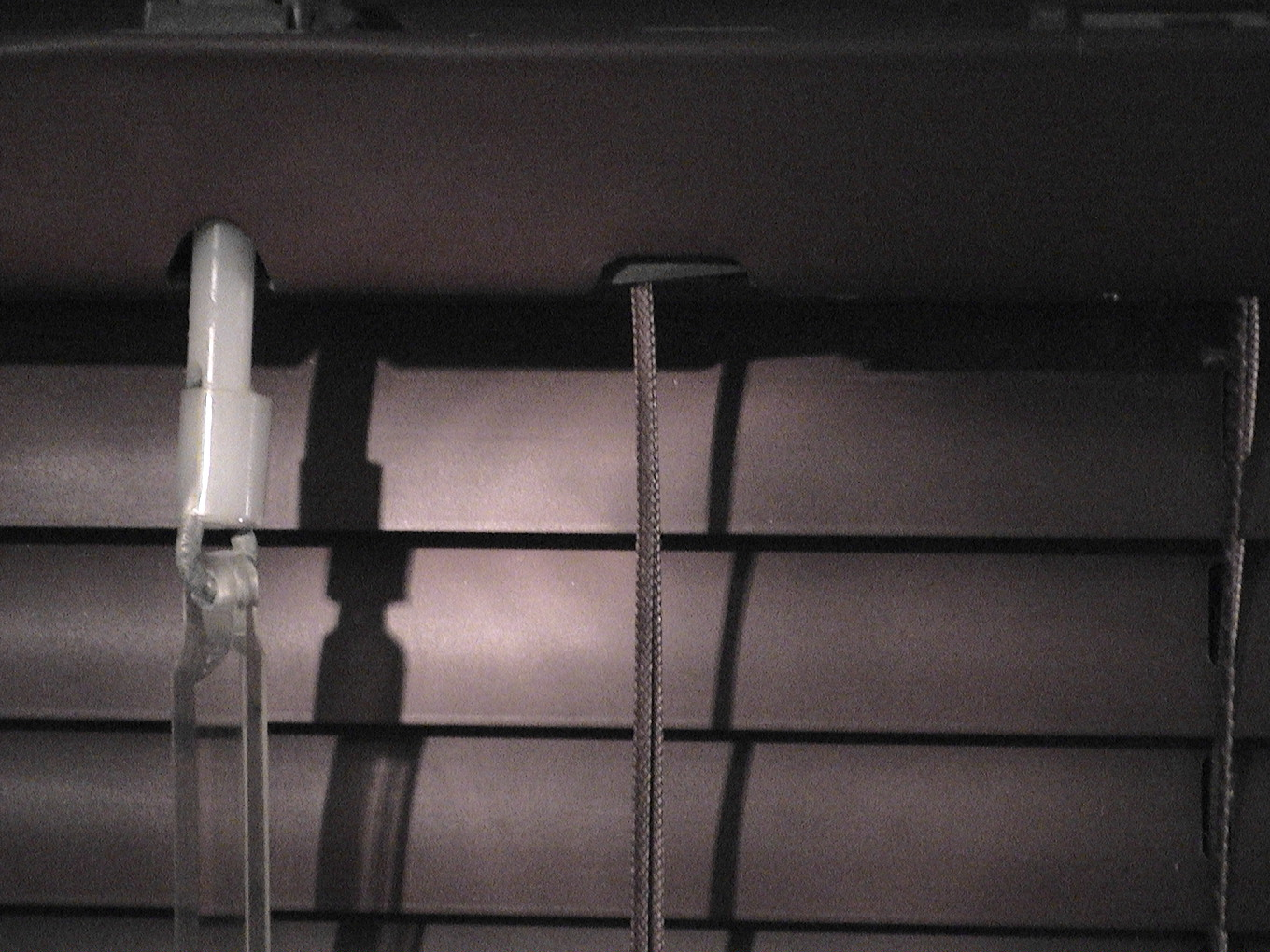 Detail of mechanism of a venitian blind.